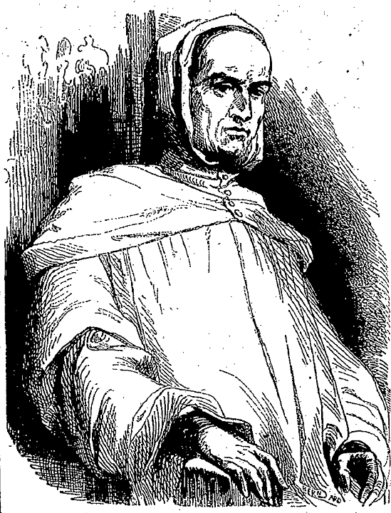 Depiction of L'Abbé Adam, illustrated by Louis Le Breton in Collin de Plancy's Dictionnaire Infernal, 1863 edition.